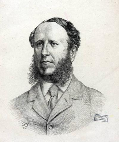 George Fosbery Lyster from the 'Liverpool Town Crier' album page 14